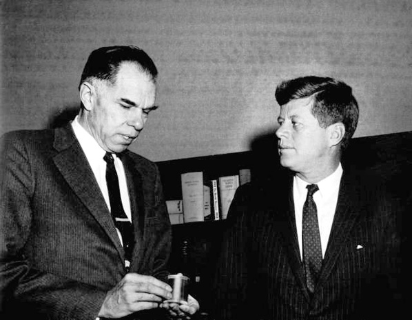 This is a photo of Glenn T. Seaborg. Chairman of the United States Atomic Energy Commission with President John F. Kennedy taken at AEC headquarters in Germantown, Maryland, on February 16, 1961.